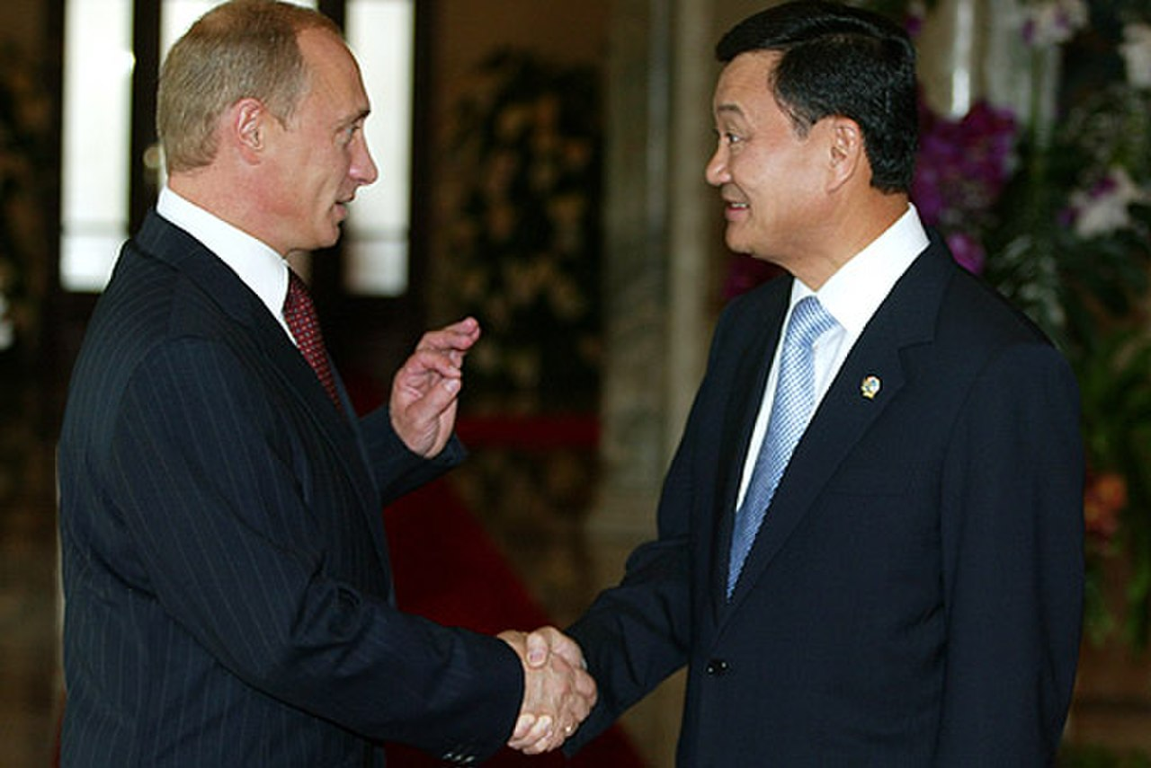 BANGKOK. President Putin with Thailand Prime Minister Thaksin Shinawatra before the start of the APEC Summit.